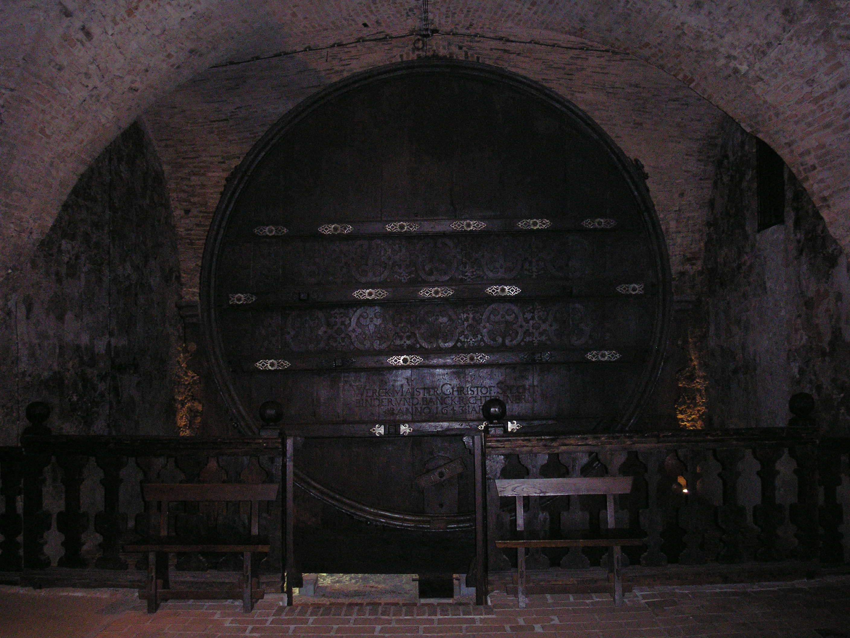 Giant barrel in Mikulov castle